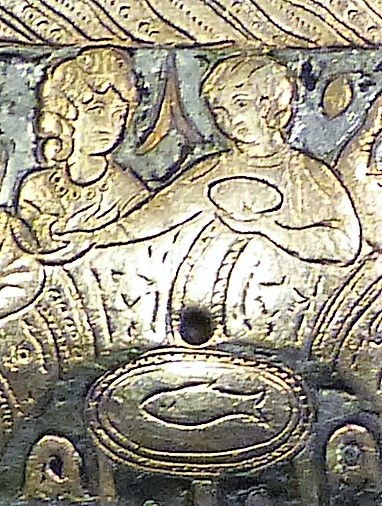 Seuso and his wife. Taken on the 19 of July, 2017. Houses of Parliament, Budapest, Hungary, Central Europe. Seuso Treasure, Vadásztál (detail). Seuso and his wife at Lake Balaton. Seuso had probably got most of the silver treasure from the roman ceasar, beeing a close relative or friend – as highest roman imperial symbols were used on the plate. Szabadbattyán with its 15.000 m2 roman palace had to be the imperial seat of Pannonia. Seuso – governor or highest ranking german official of Pannonia Inferior (Roman Empire) – had a roman estate stretching to Lake Balaton. It was a 25 km journey. Coming all the way down to Partfő at Lake Balaton, spread of Seuso and his wife. After Traian's border modification (106) the border of Pannonia Inferior lied at Lake Balaton, at Partfő (Balatonkenese).